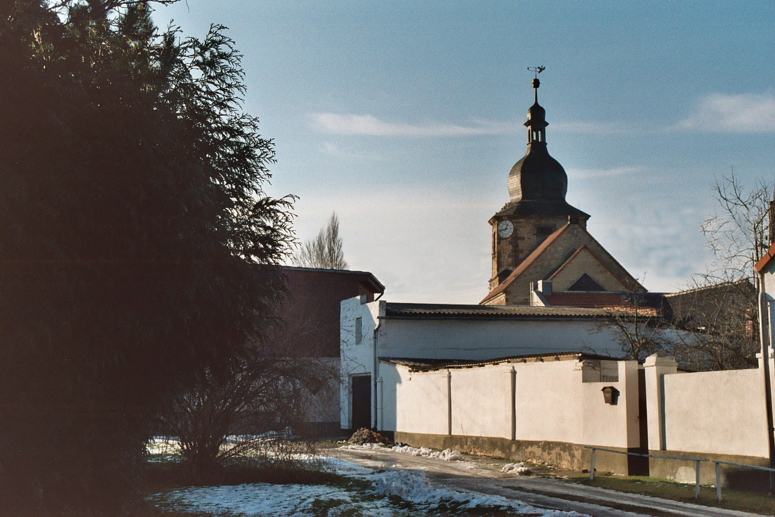 Dornstedt (Teutschenthal), the village church